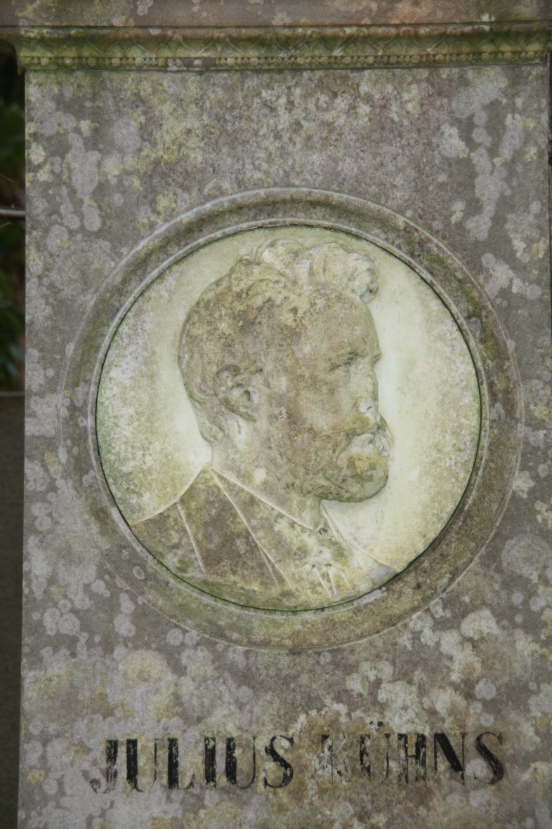 Gravestone to Julius Kühns at Southwestern Cemetery Stahnsdorf